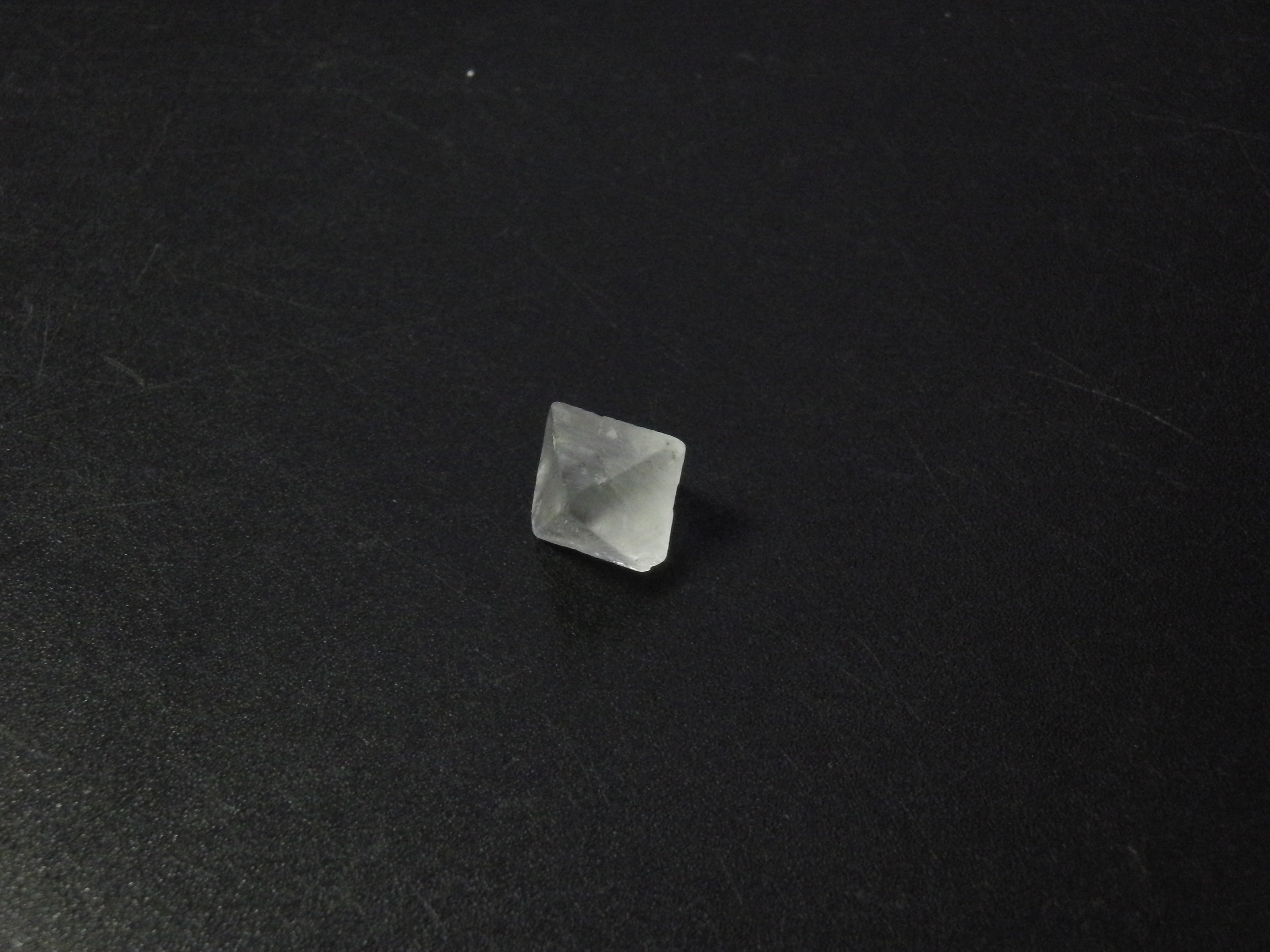 Fluorite monocrystal